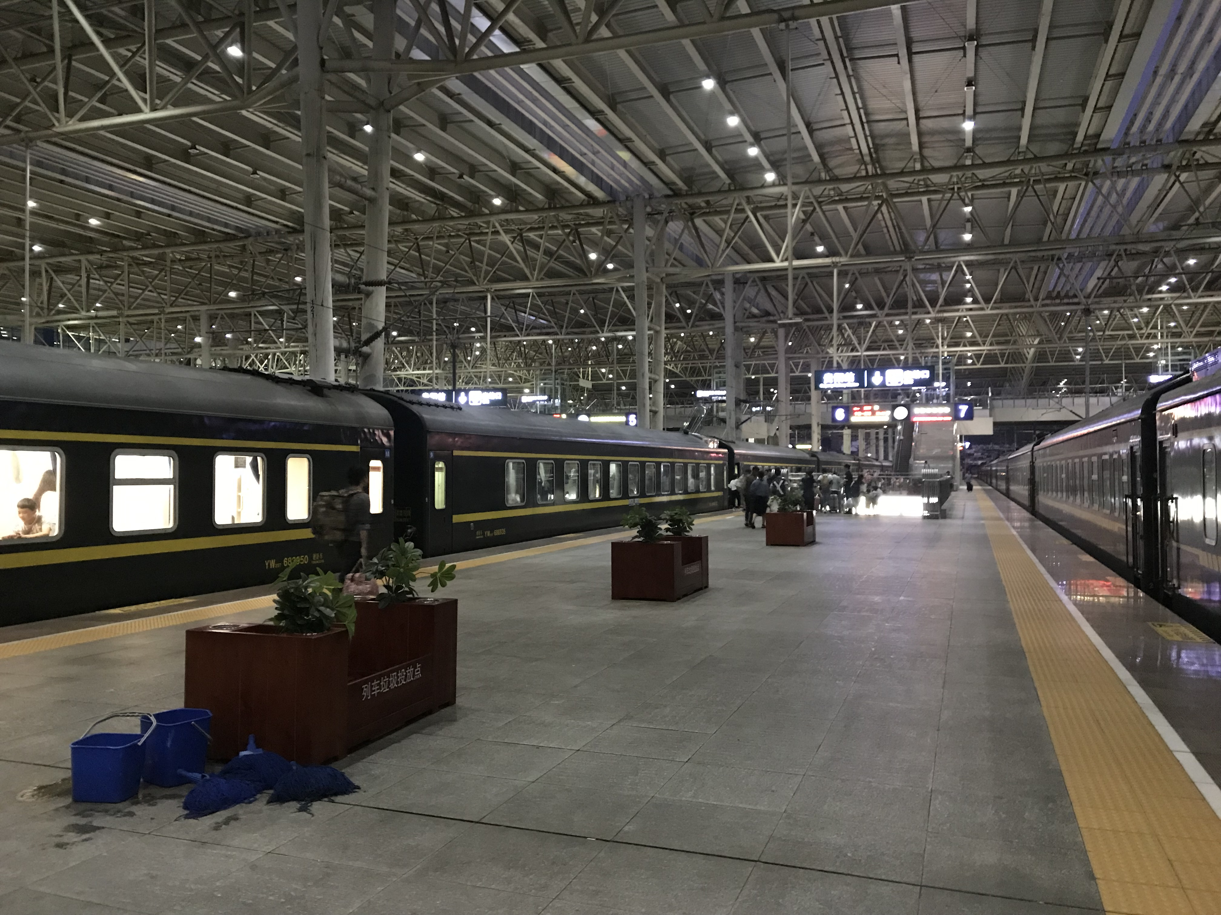 201908 Platform 6,7 of Guiyang Station